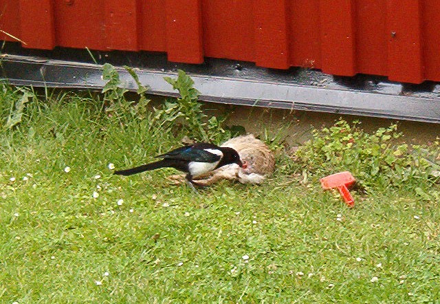 Magpie eating of a deat rabbit on a lawn beside a kindergarten (hence the plastic shovel) in Malmö, Sweden. Image taken June, 2003, on a lawn in Malmö, Sweden.